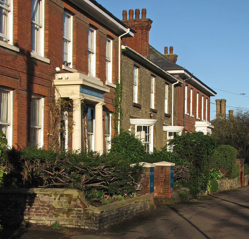 Royston: houses on Kneesworth Street